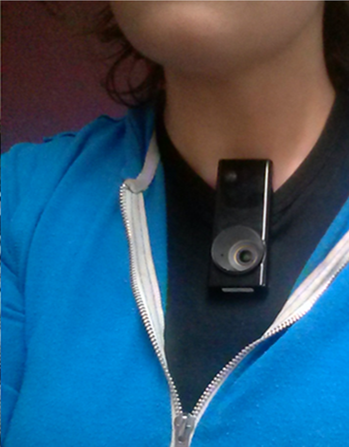 An Autographer lifelogging device that integrates a camera and a set of associated sensor readings (the sensors are accelerometer, motion detector, magnetometer, thermometer, GPS sensor and a brightness detector) Original caption: "Figure 1. a) Autographer—lifelogging device. b) Orientation determined by Autographer manufacturer using magnetic field and acceleration where Yaw is an Azimuth (0–360 degrees), Roll (-90-90 degrees) and Pitch (-180-180 degrees)."